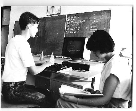 This photo is from my book: RACUNARI TIM, p.156, NK, Belgrade 1990